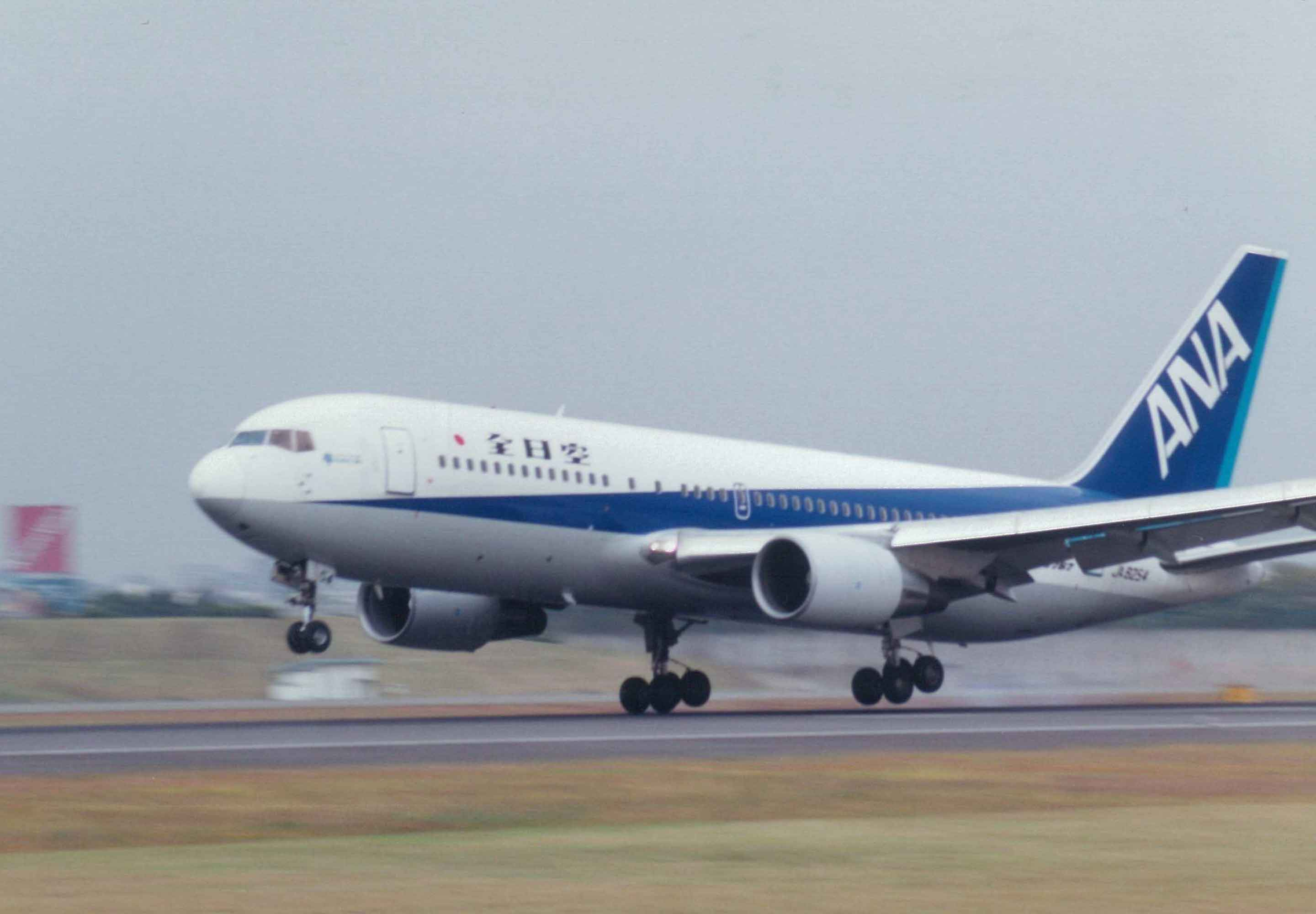 It is ANA which it photographed in Itami, Osaka Airport.